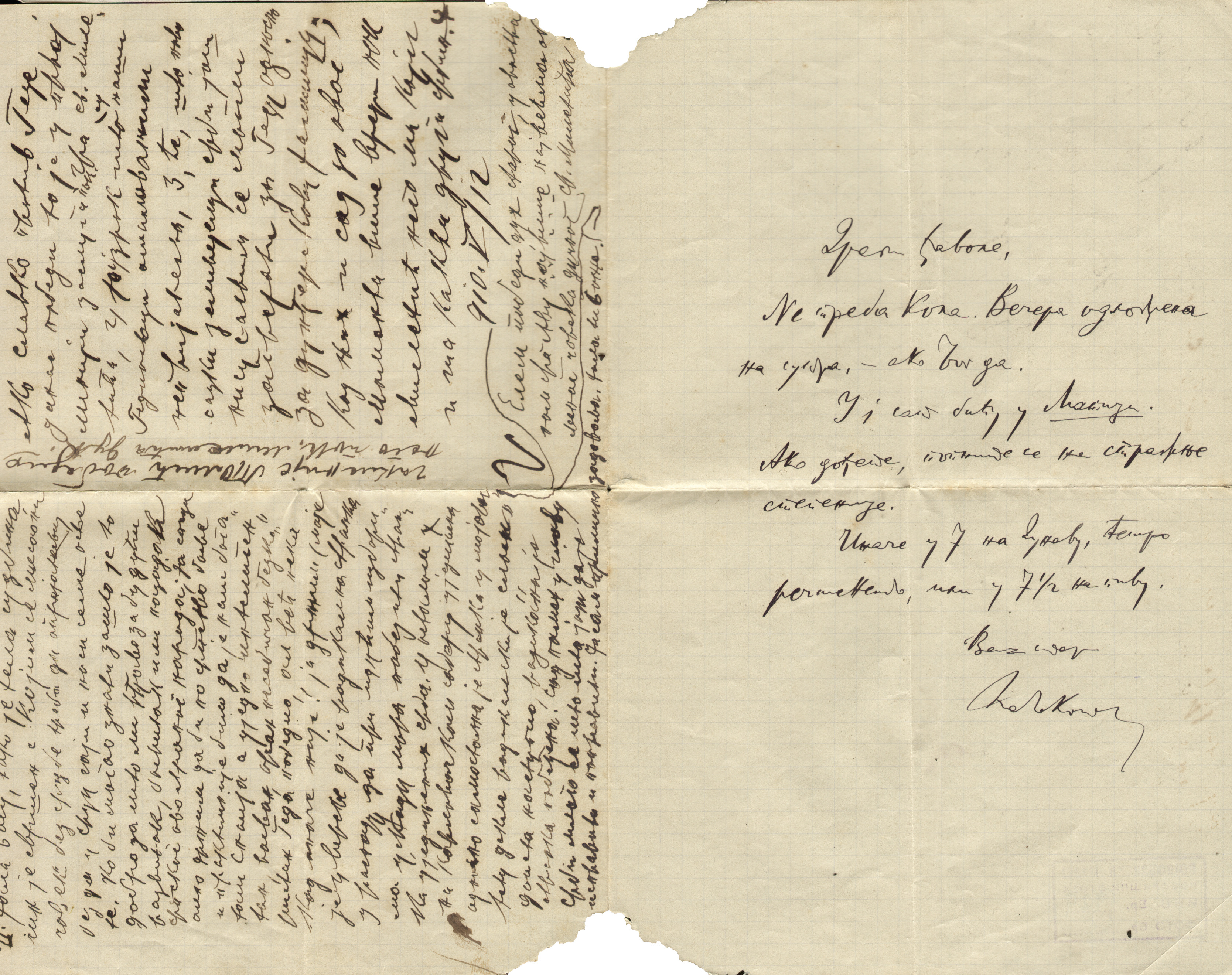 Letter from writer Laza Kostić to his friend Jovan Miličić, Sombor, July 14, 1908 Srpski (latinica): Pismo književnika Laze Kostića prijatelju Jovanu Miličiću Sombor, 14. jula 1908. g. Српски (ћирилица): Писмо књижевника Лазе Костића пријатељу Јовану Миличићу, Сомбор, 14. јула 1908. г.